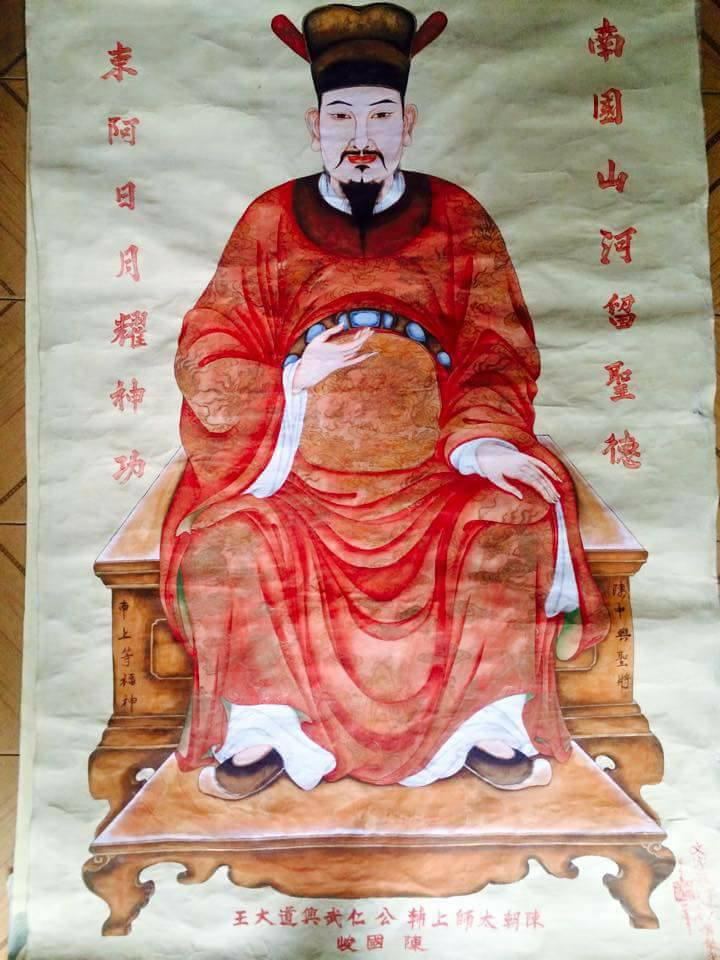 Portrait painting of Prince Trần Quốc Tuấn.